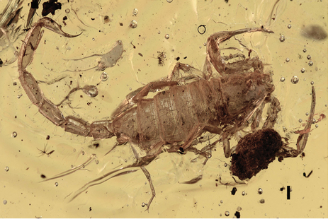 Betaburmesebuthus bellus Male holotype. 1 Habitus, dorsal aspect